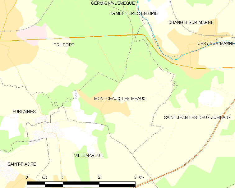 Map of French municipality Montceaux-lès-Meaux